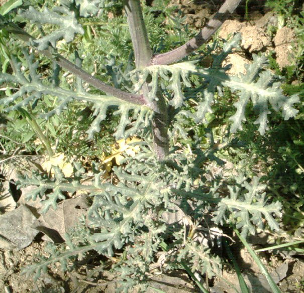 Base and stalks of Senecio squalidus or Oxford Ragwort